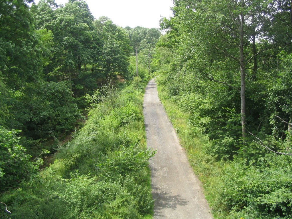 Part of the National Nature Reserve in the Wyre Forest near Bewdley. Photo taken by Loganberry, 7th July 2004. The footpath follows the line of the old Wyre Forest railway from Bewdley to Woofferton.